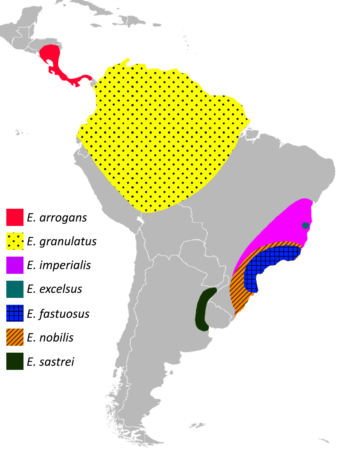 Geographical distribution of the species of Entimus. Based on Morrone JJ (2002)